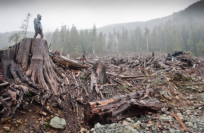 Cleacut logging of old-growth forest as seen in the Bugaboo Creek area of the Gordon River near Port Renfrew, BC. This clearcut harboured many giant stumps, some measuring up to 15ft across.